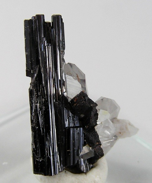 Hübnerite, Quartz Locality: Huayllapon Mine (Huallapon Mine), Pasto Bueno District, Pallasca Province, Ancash Department, Peru (Locality at ) Size: 2.2 x 1.3 x 1.3 cm. An elegant thumbnail of hubnerite from the premier locality for the species, consisting of a doubly-terminated crystal crossing a smaller hubnerite and some quartzes. Ex. Jaime Bird Collection.